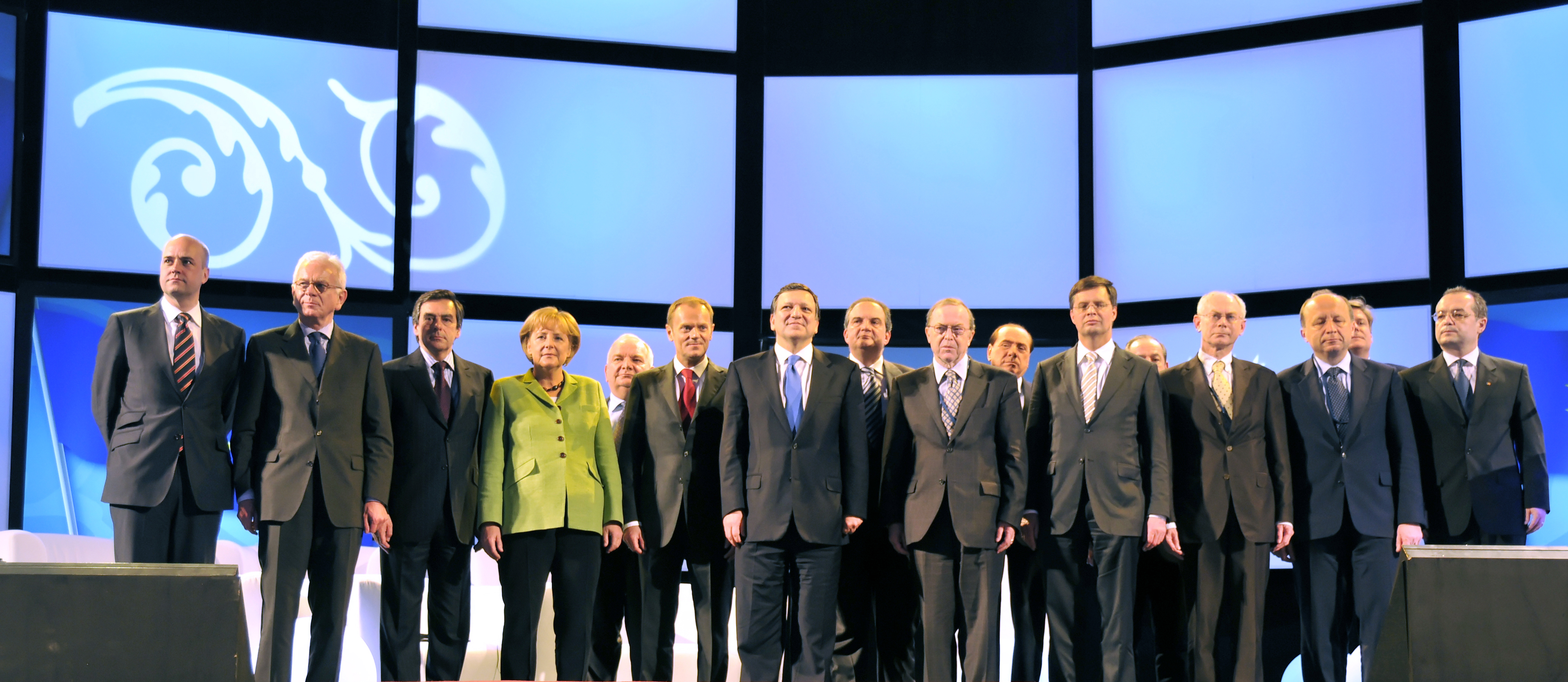 European People's Party Prime Ministers during the 2009 Congress in Warsaw